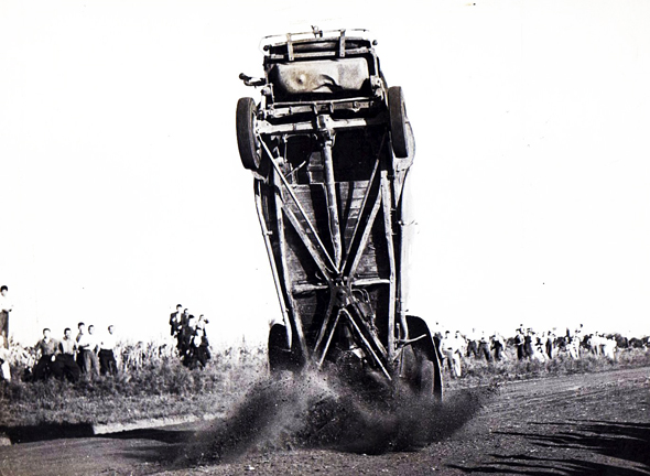 Fatal race accident in Argentina, where the driver Vìctorio Marchesich later dies. This occurs on 25 February 1950 in the first second of the 2nd (II) Vuelta de Santa Fe race. Victorio was the driver. Also in the car is his brother Francisco Marchesich the co-driver, both from La Plata.